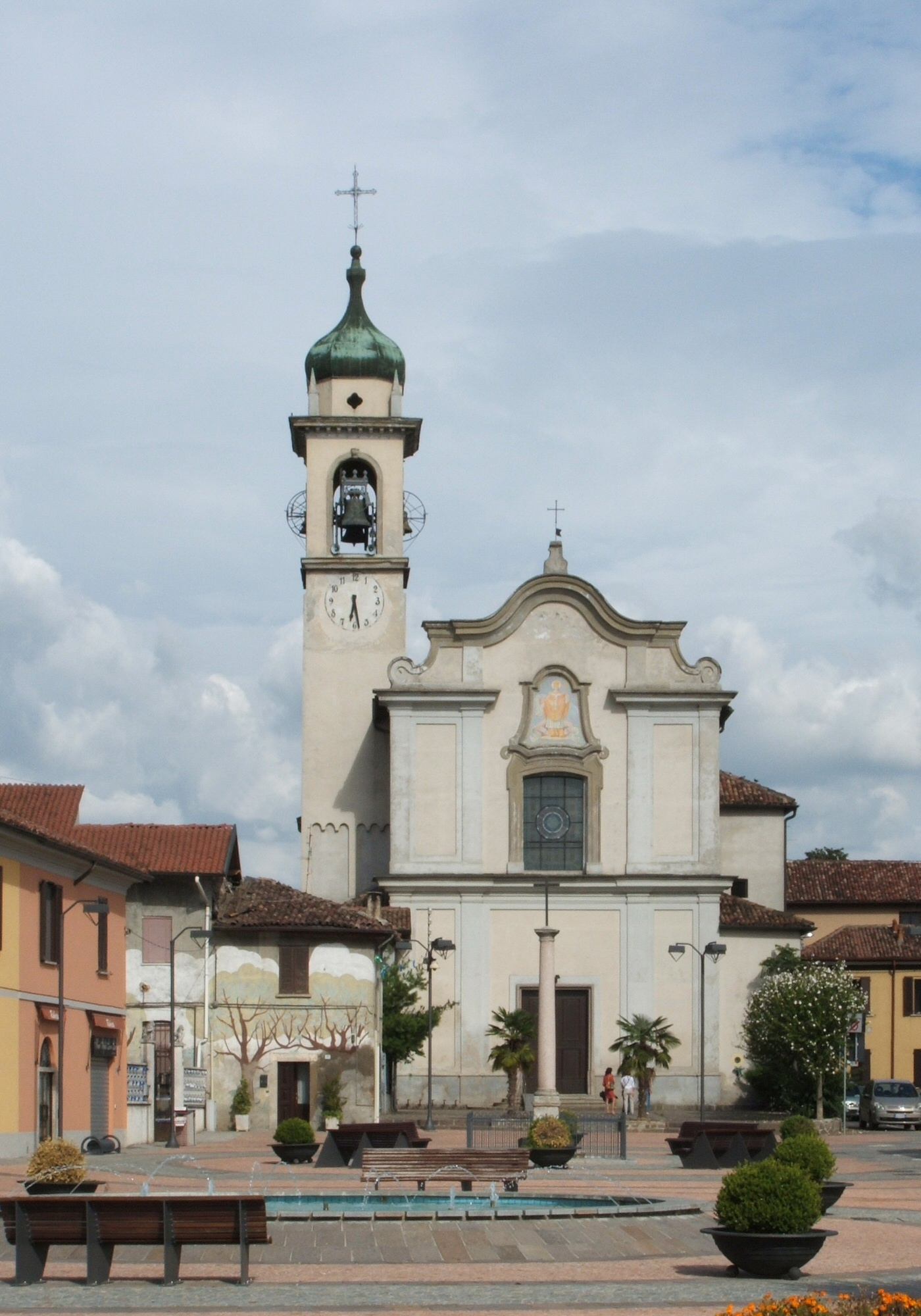 Settala (MI) - Italy - Saint Ambrogio parish church